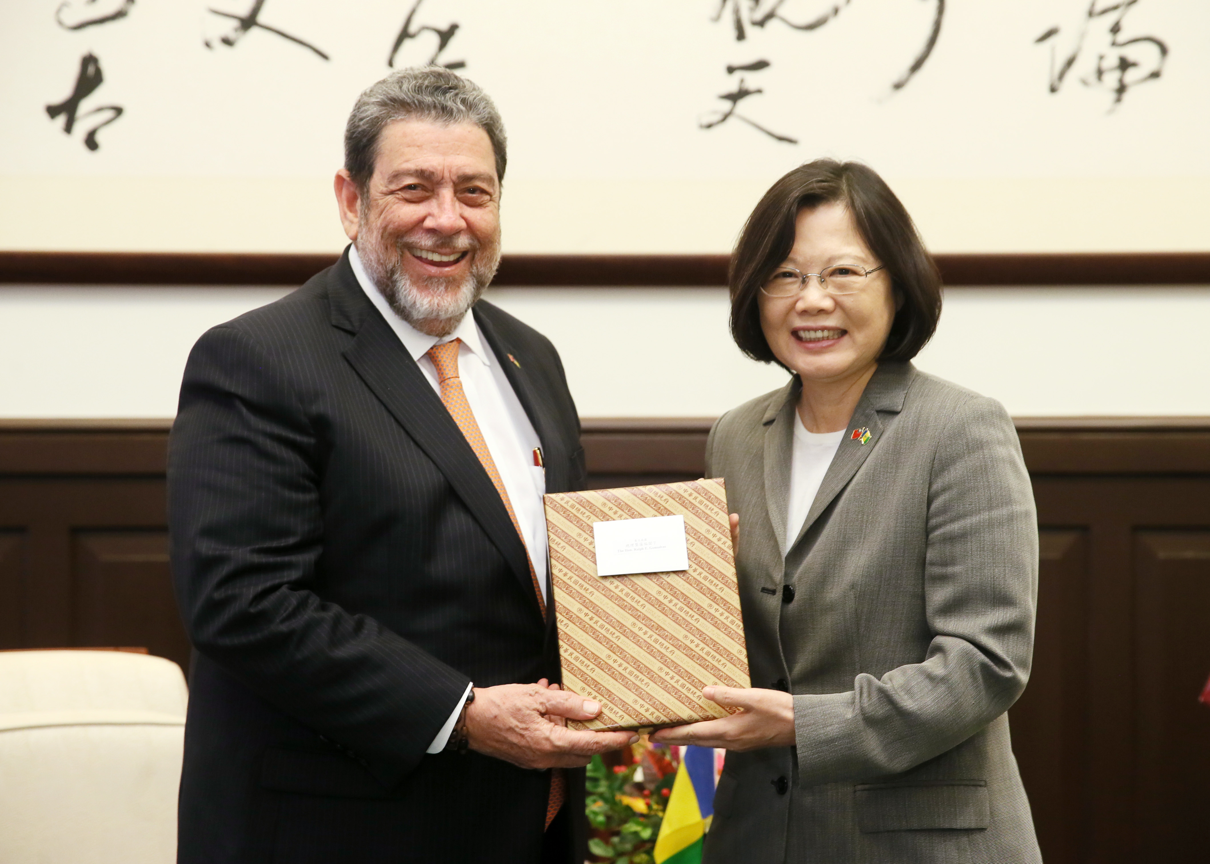 President Tsai exchanges gifts with Prime Minister Ralph E. Gonsalves of St. Vincent and the Grenadines.